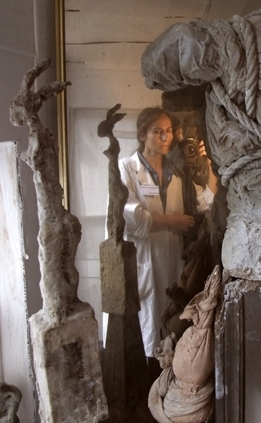 The installation artist Iris Häussler as "archivist" in a room of her project "The Legacy of Joseph Wagenbach".